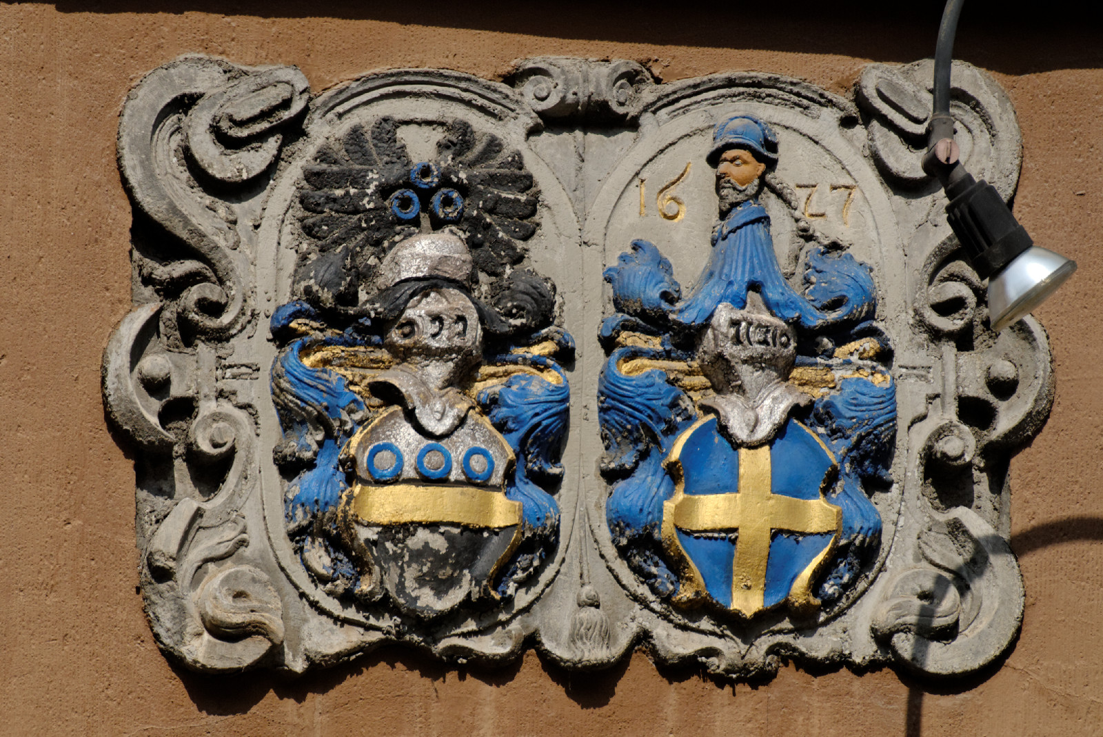 Relief at house Altestadt 14 in Düsseldorf-Altstadt, Germany